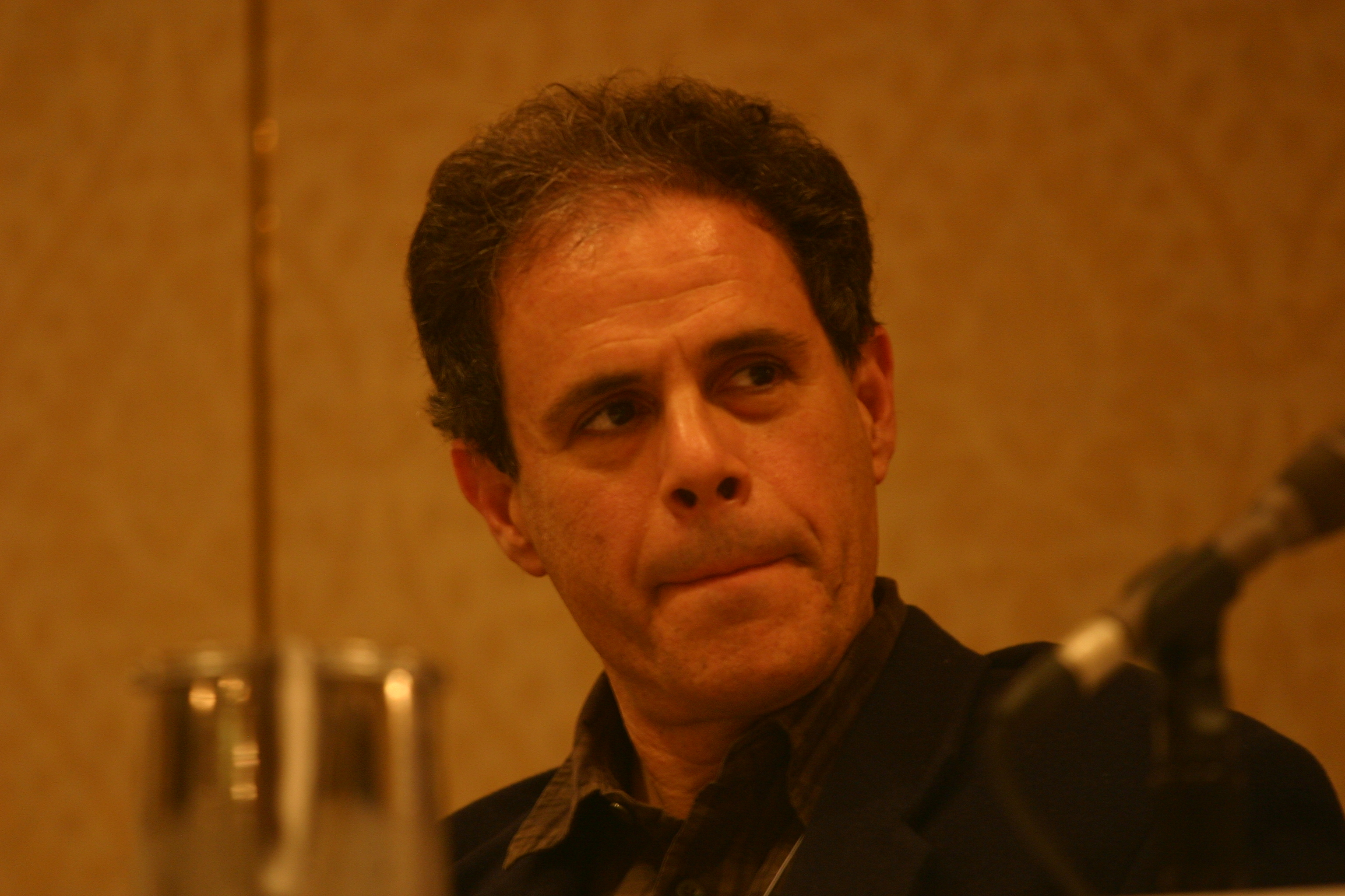 Ben Yagoda at Third Coast Audio Festival - 10/21/2005